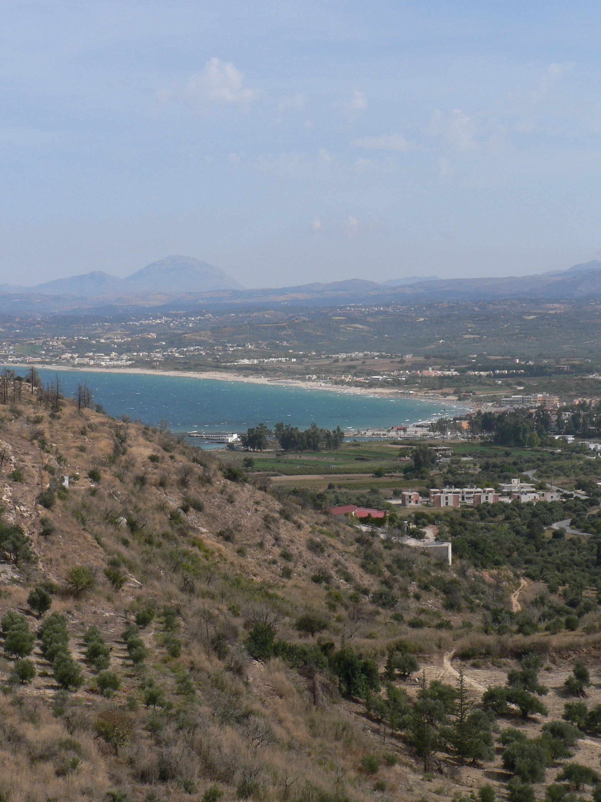 View over Georgioupoli, Crete.